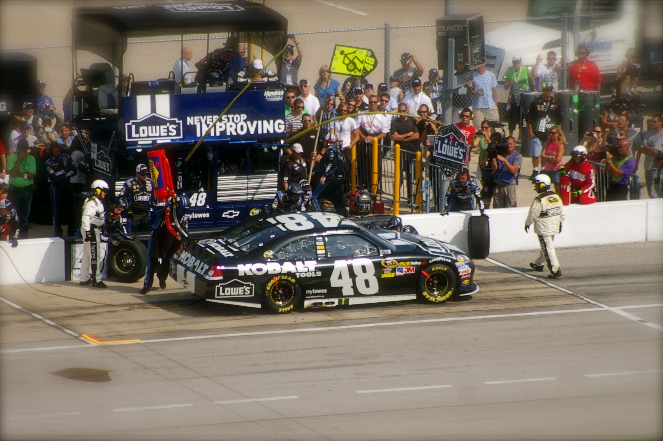 Mr. five-time filling up with Sunoco race fuel.